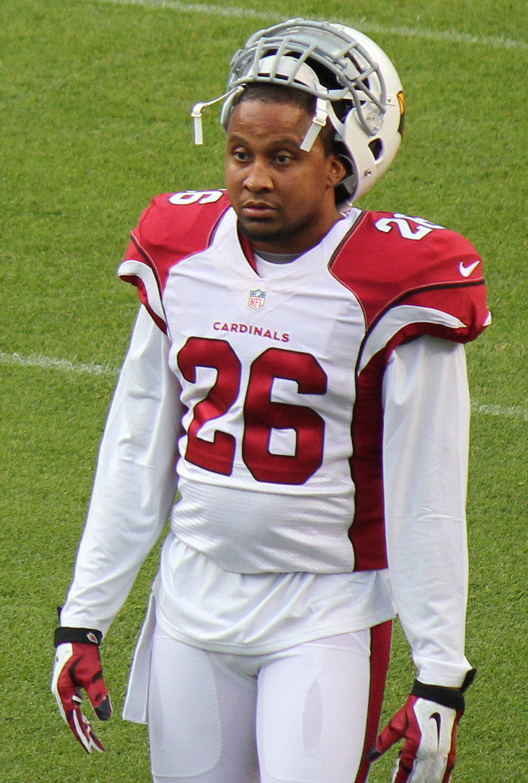 Rashad Johnson, a player on the National Football League.